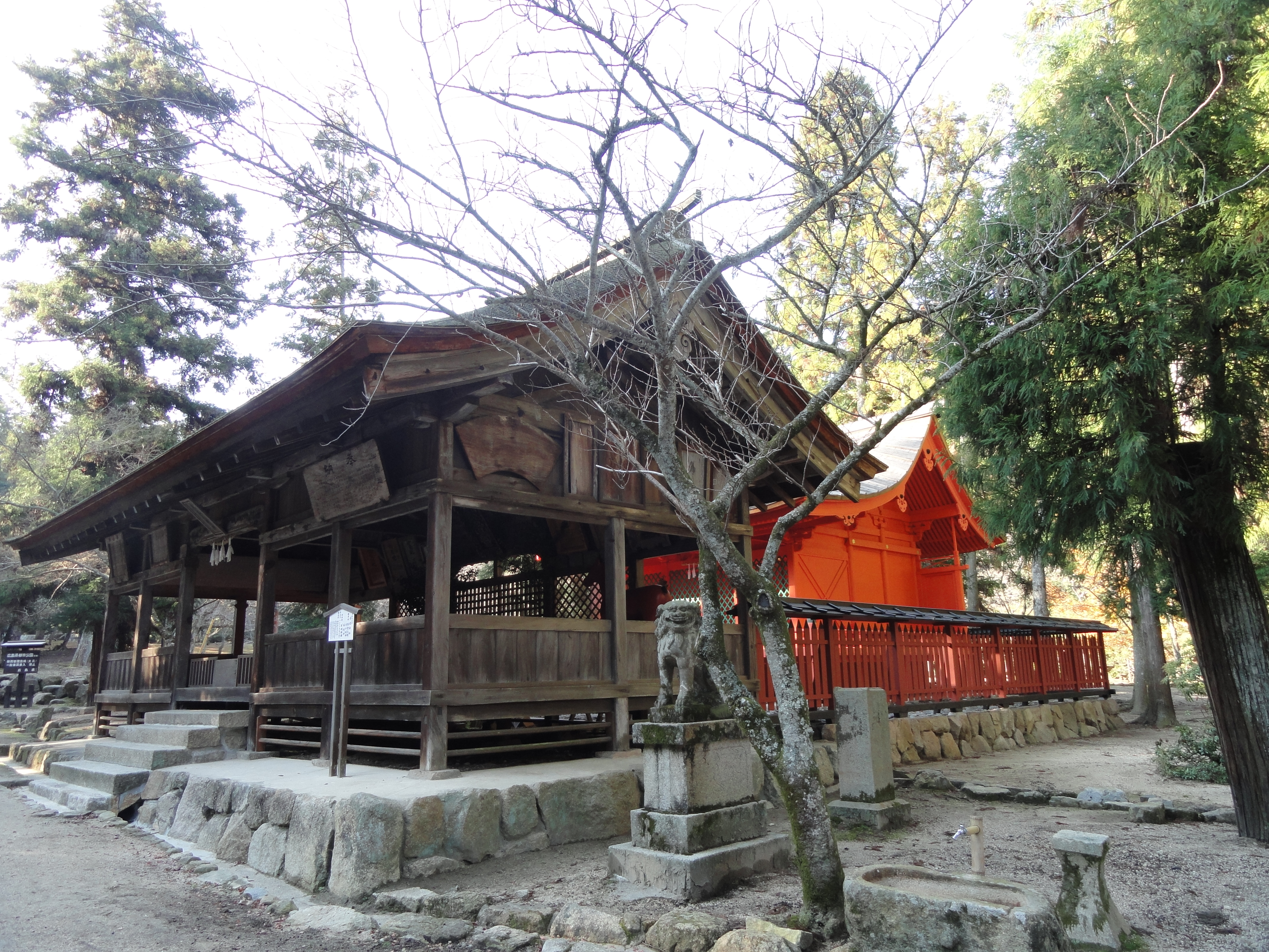 Omoto Shrine in Miyajima-cho, Hatsukaichi-shi, Hiroshima-ken, Japan. Its main hall was designated as a National Important Cultural Property on February 18, 1948.